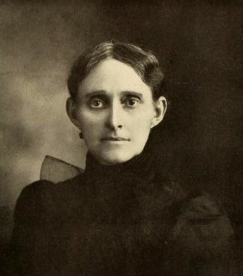 Jane Sherar, (maiden name Jane A. Herbert), who with her husband Joseph Sherar owned a 19th-century stagecoach stop and hotel and a nearby bridge over the Deschutes River in the U.S. state of Oregon